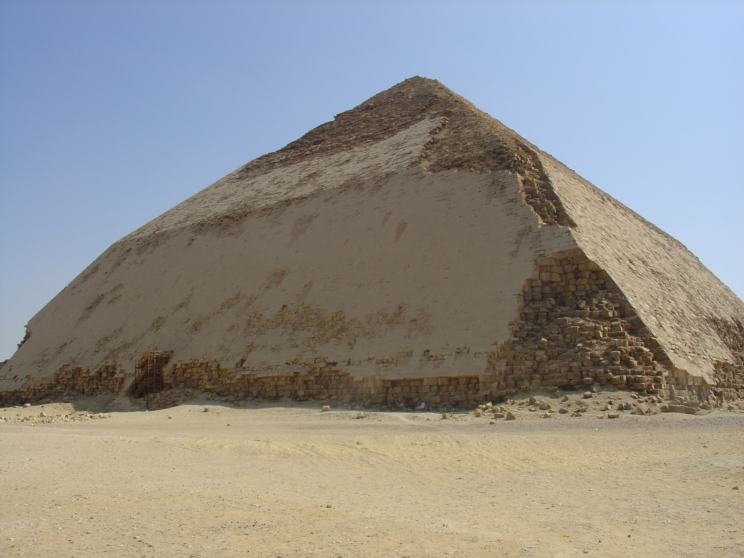 Pharaoh Sneferu's Bent Pyramid in Dahshur, Egypt. Date:14 October 2007